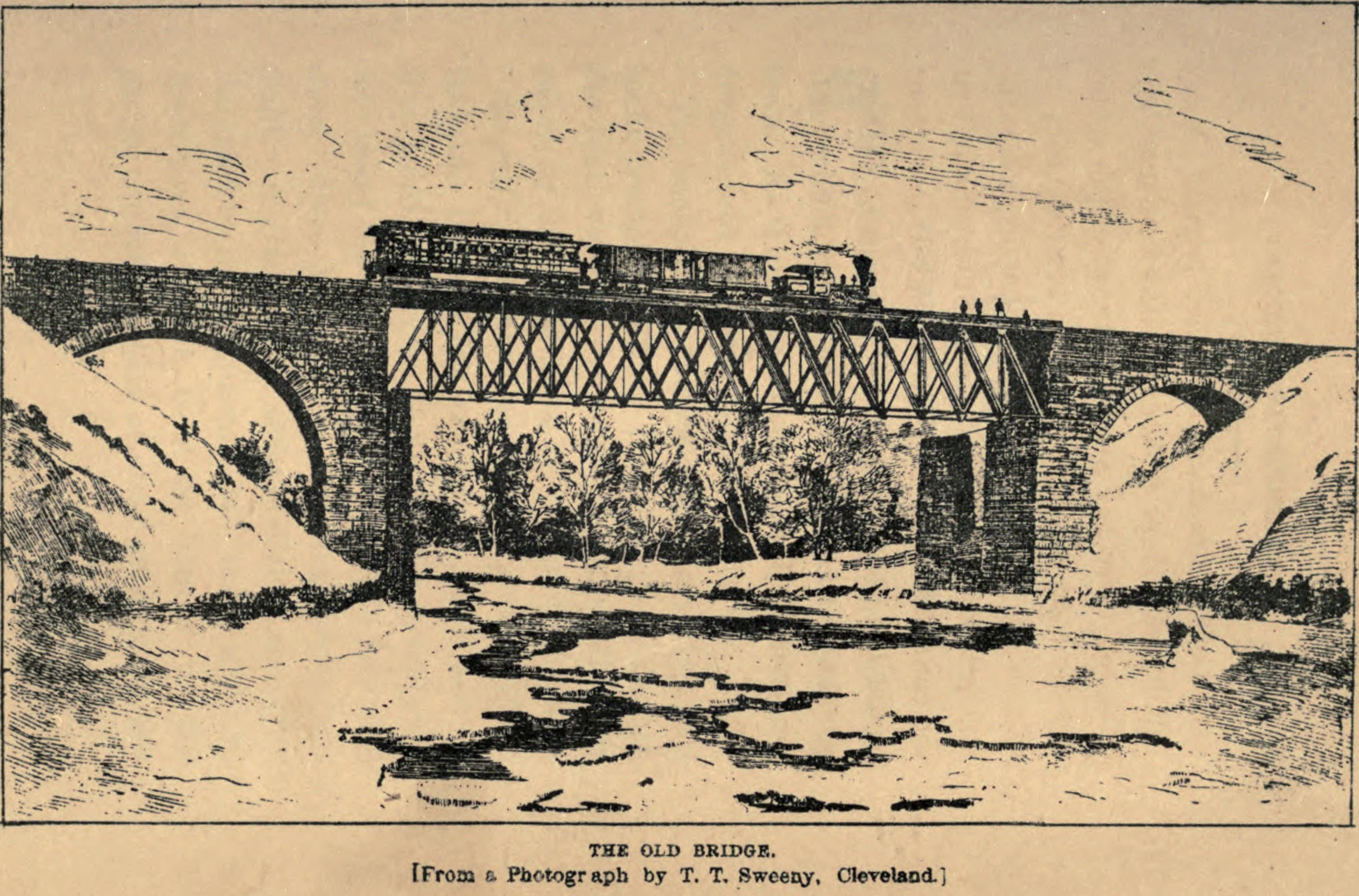 Ashtablua bridge before collapse in 1876.